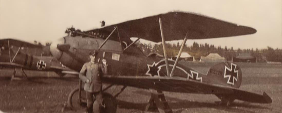 Leutnant Werner Dittman, della Jasta 1, next to the Albatros D.2229/17. Bled october 1917